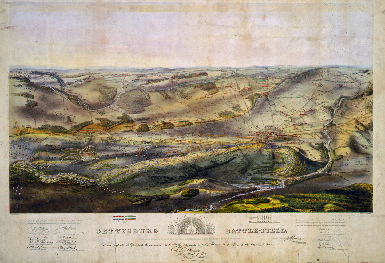 TITLE: Gettysburg battlefield / Jno. B. Bachelder, del. ; Endicott & Co. lith, N.Y. CALL NUMBER: PGA - Endicott & Co.--Gettysburg battlefield (D size) [P&P] REPRODUCTION NUMBER: LC-USZC4-2815 (color film copy transparency) LC-USZ62-145 (b&w film copy neg.) SUMMARY: Bird's-eye view of Gettysburg battlefield, showing positions of Union & Confederate armies during the battle. MEDIUM: 1 print : lithograph, color. CREATED/PUBLISHED: c1863. CREATOR: W. Endicott & Co. RELATED NAMES: Bachelder, John B. (John Badger), 1825-1894, artist. NOTES: 1333C1(?) U.S. Copyright Office. Contains small map of Soldiers National Cemetery showing arrangement of graves. Signatures (facimilies) of generals verifying accuracy of troop positions as shown on map. SUBJECTS: United States--History--Civil War, 1861-1865--Battlefields. Gettysburg, Battle of, Gettysburg, Pa., 1863--Battlefields. FORMAT: Bird's-eye view prints 1860-1870. Topographic maps 1860-1870. Lithographs Color 1860-1870. REPOSITORY: Library of Congress Prints and Photographs Division Washington, D.C. 20540 USA DIGITAL ID: (color film copy transparency) cph 3g02815 (b&w film copy neg.) cph 3a04130 CARD #: 93517377